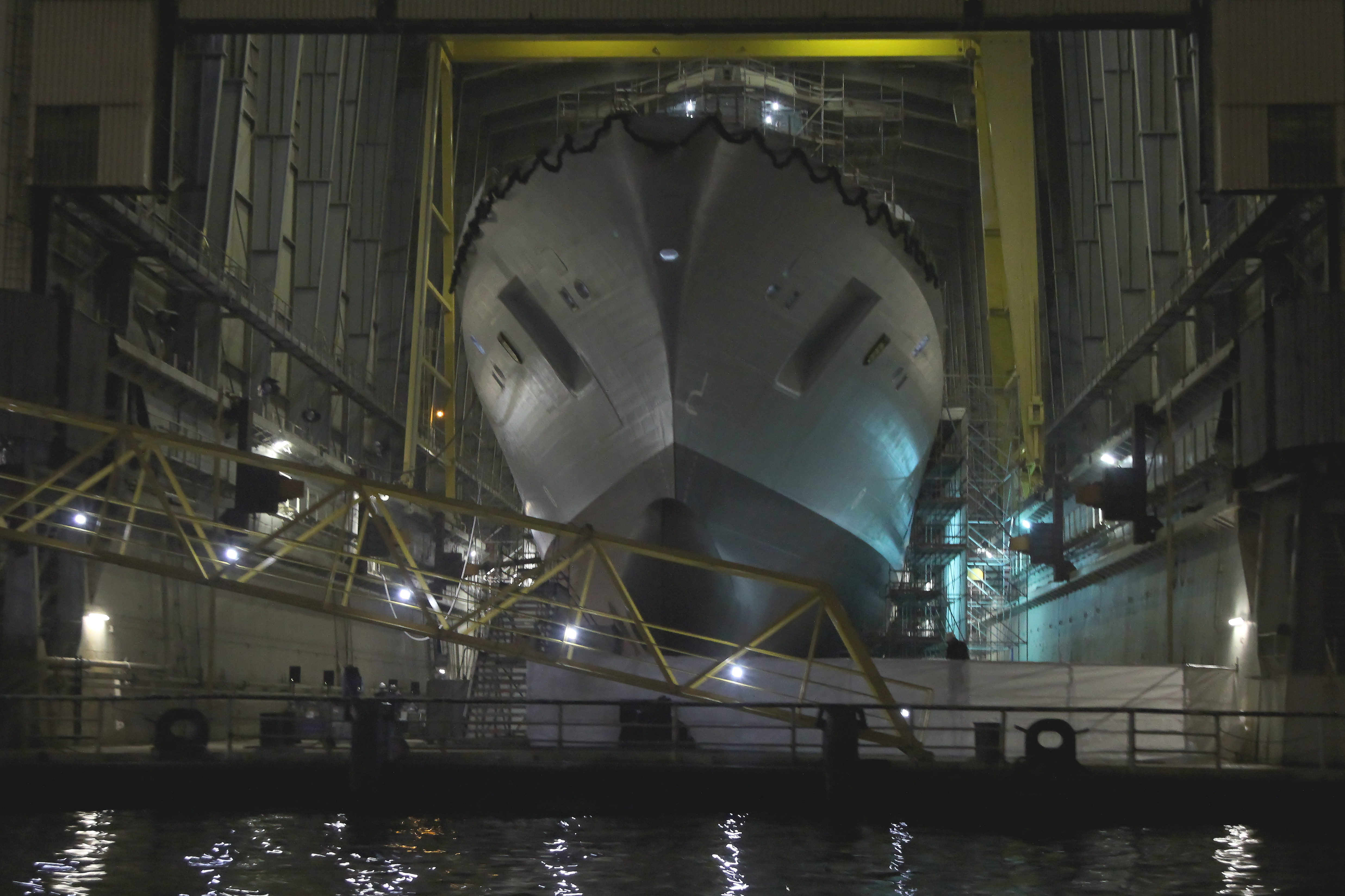 German frigate F222 Baden-Württemberg during build at Blohm&Voss in Hamburg